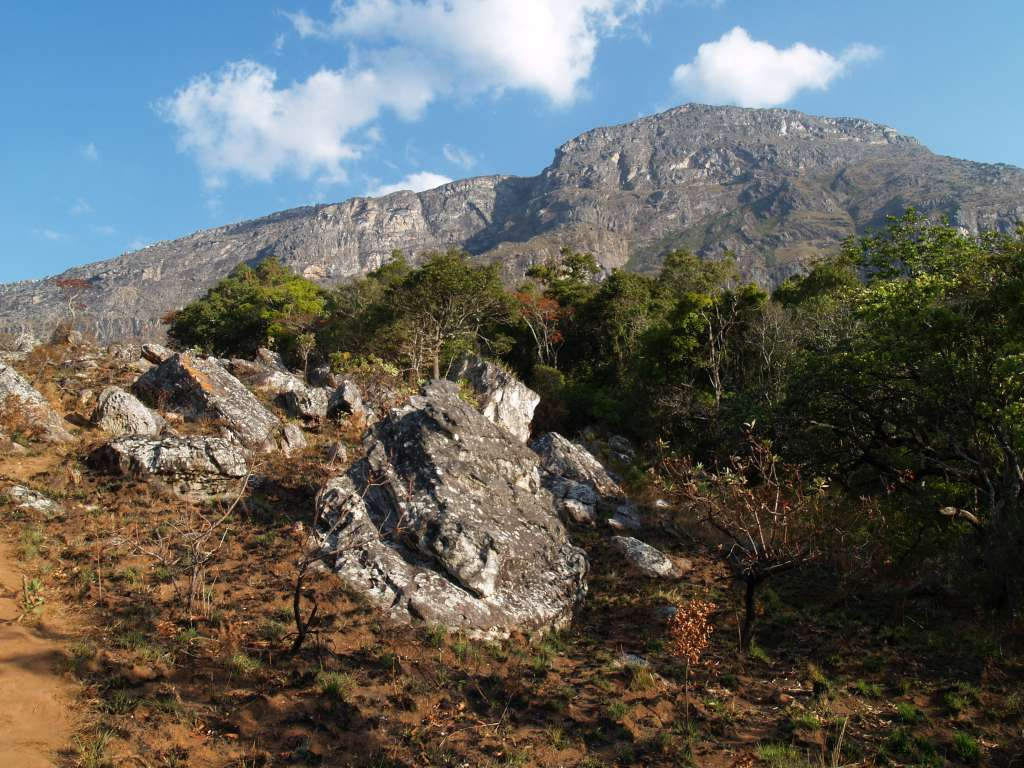 Mt. Binga, the highest Mountain in Mozambique, southeastern Africa. The picture shows Mt. Binga's north face.